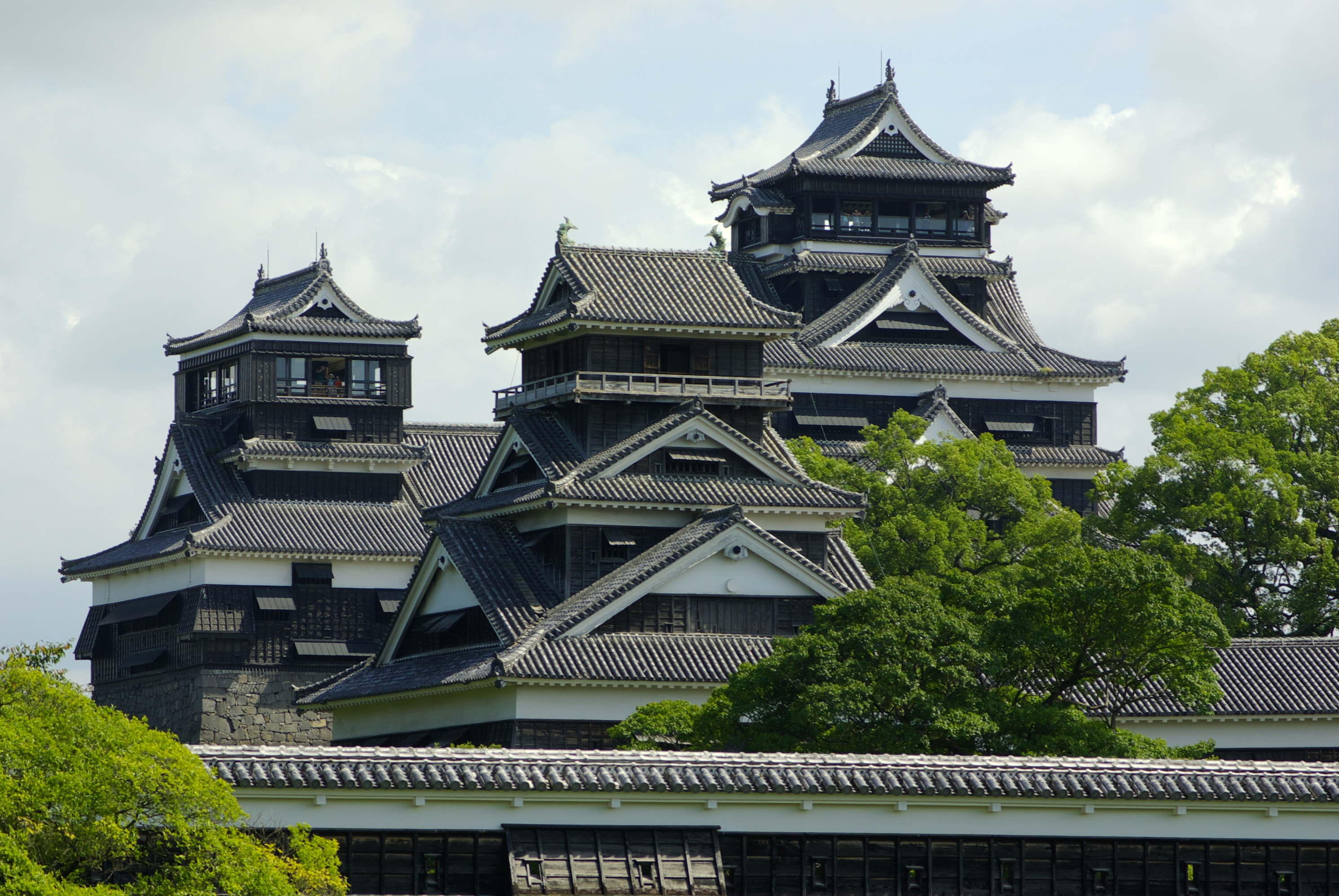 From left to right, Small tenshu, Uto turret, Large tenshu in Kumamoto Castle.